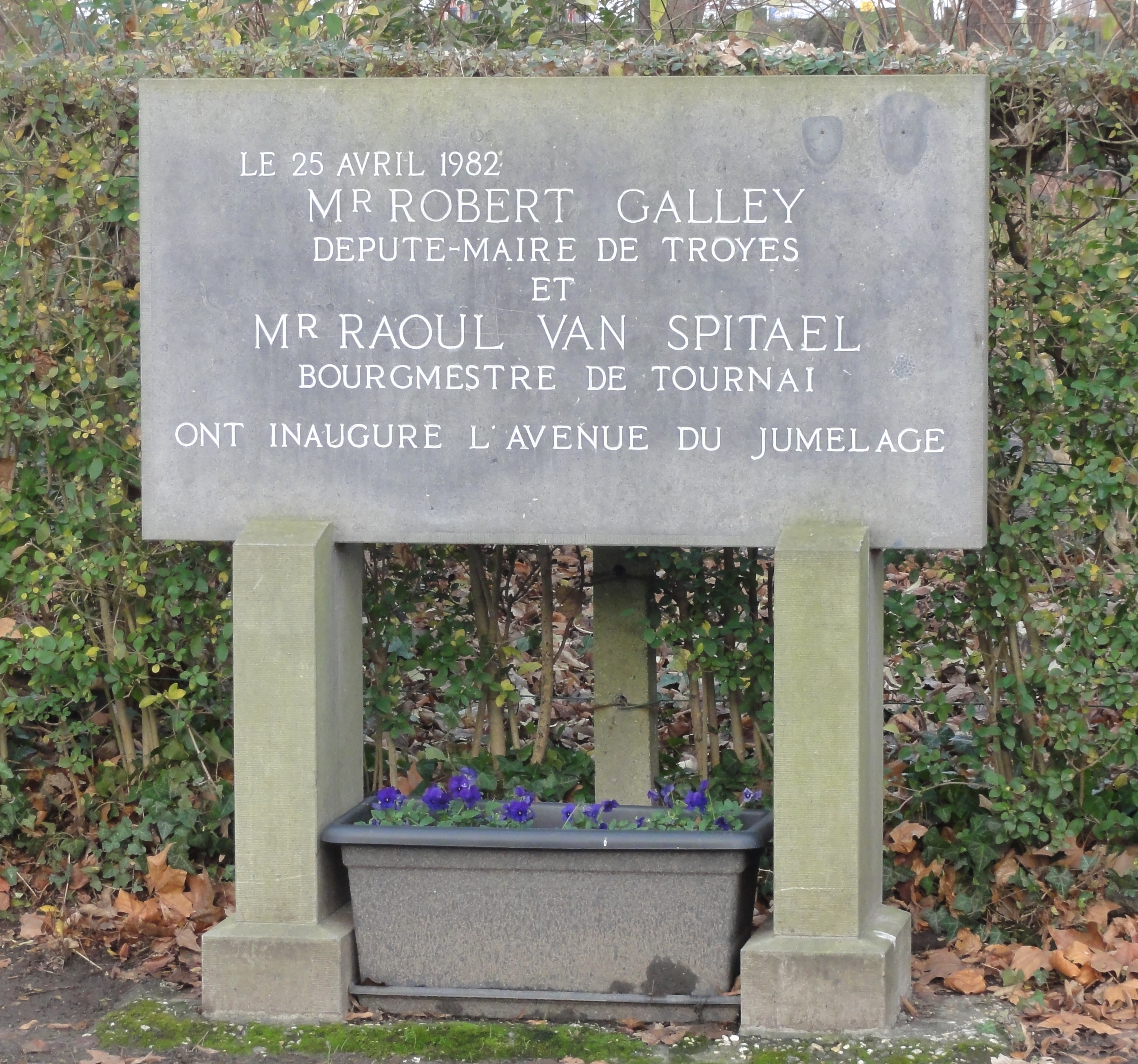 Depicted place: Tournai